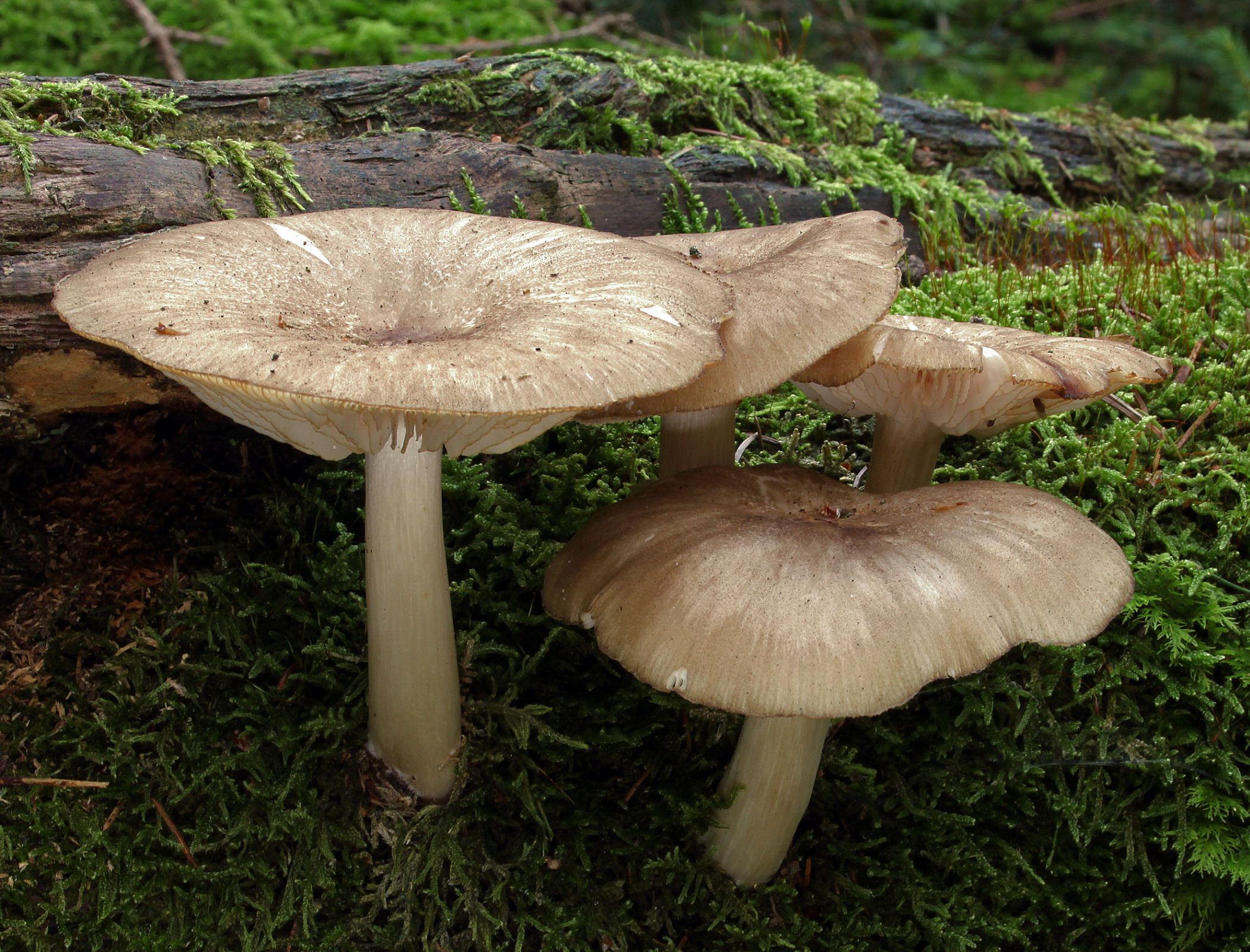 Megacollybia platyphylla or Collybia platyphylla, Family: Tricholomataceae, Location: Germany, Eggingen.